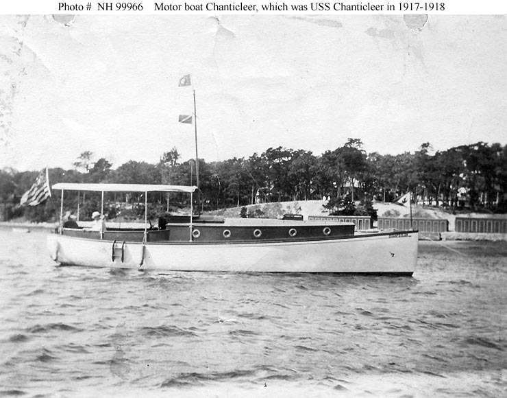 The motorboat Chanticleer prior to her service as the United States Navy patrol vessel